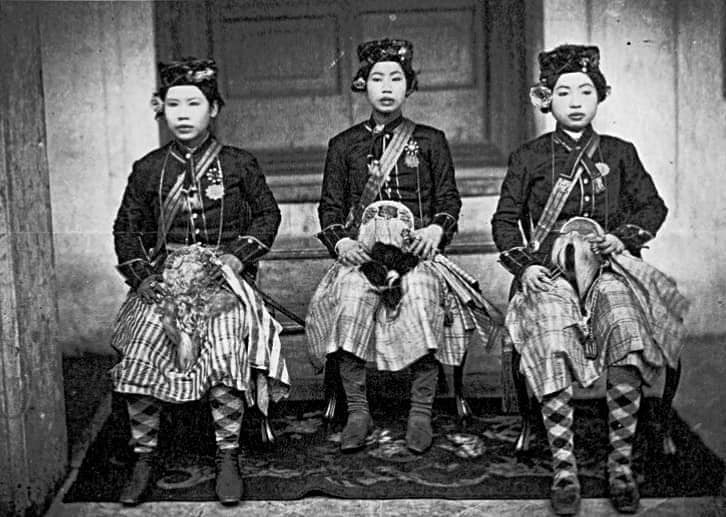 Siamese ladies in Scottish attire. (from left) Concubine Khian, Concubine Wat and Concubine Yisun